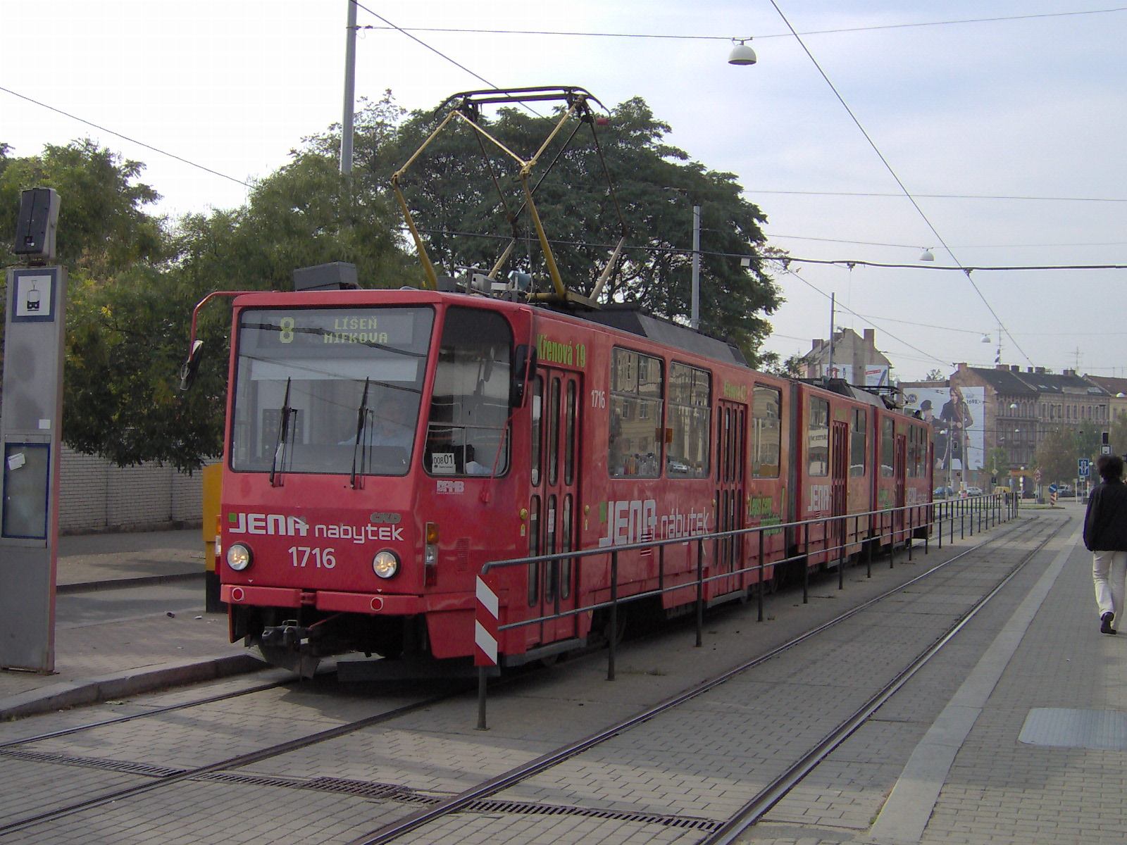 KT8D5 tram in Brno